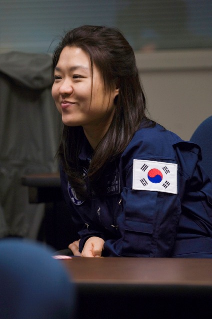 Backup spaceflight participant So-Yeon Yi listens to a news reporter's question for spaceflight participant San Ko (out of frame) of South Korea during an Expedition 17 press briefing on Jan. 15, 2008 at the Johnson Space Center. [Soyeon Yi has been named to replace San Ko as South Korea's first astronaut, it was announced March 10.]